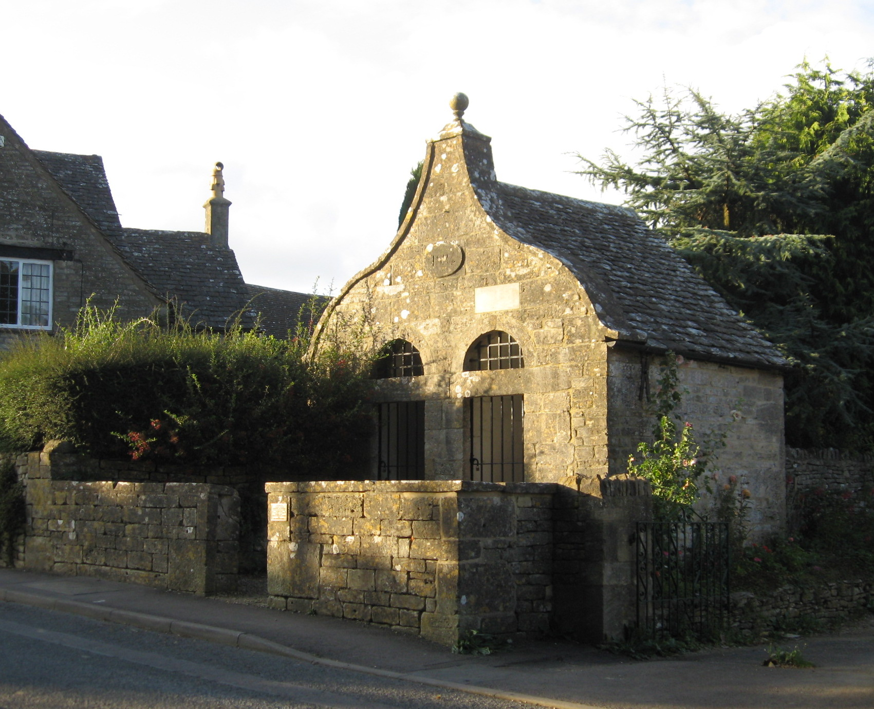 Lock-up at the village of Bisley, Gloucestershire, England.